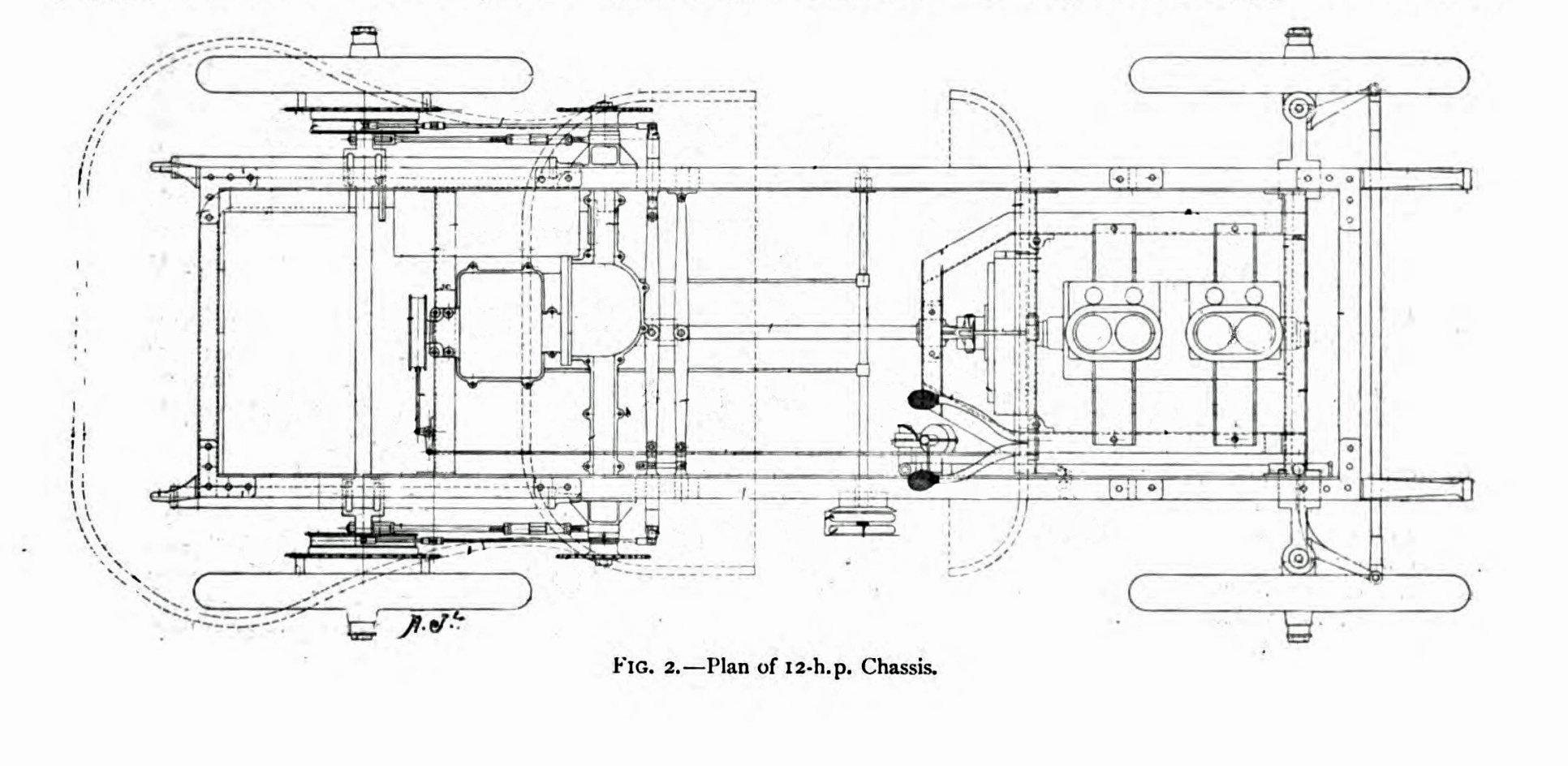 1902 Daimler 12 hp Chassis illustration